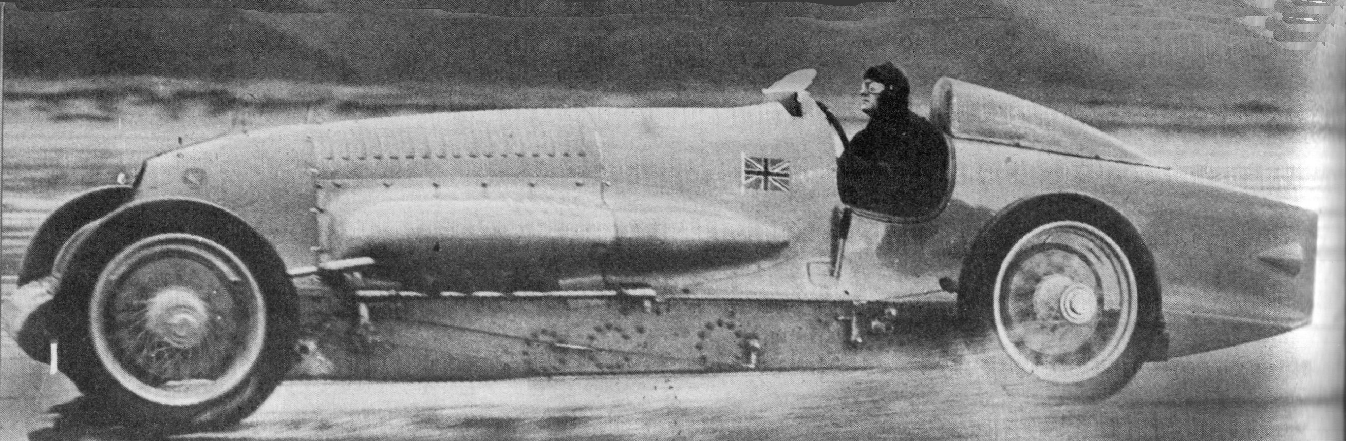 In January 1927, Major (now Sir) Malcolm Campbell in his famous "Bluebird" broke the world's Land Speed Record at Pendine Sands. Approximate date of photograph: 1927-01